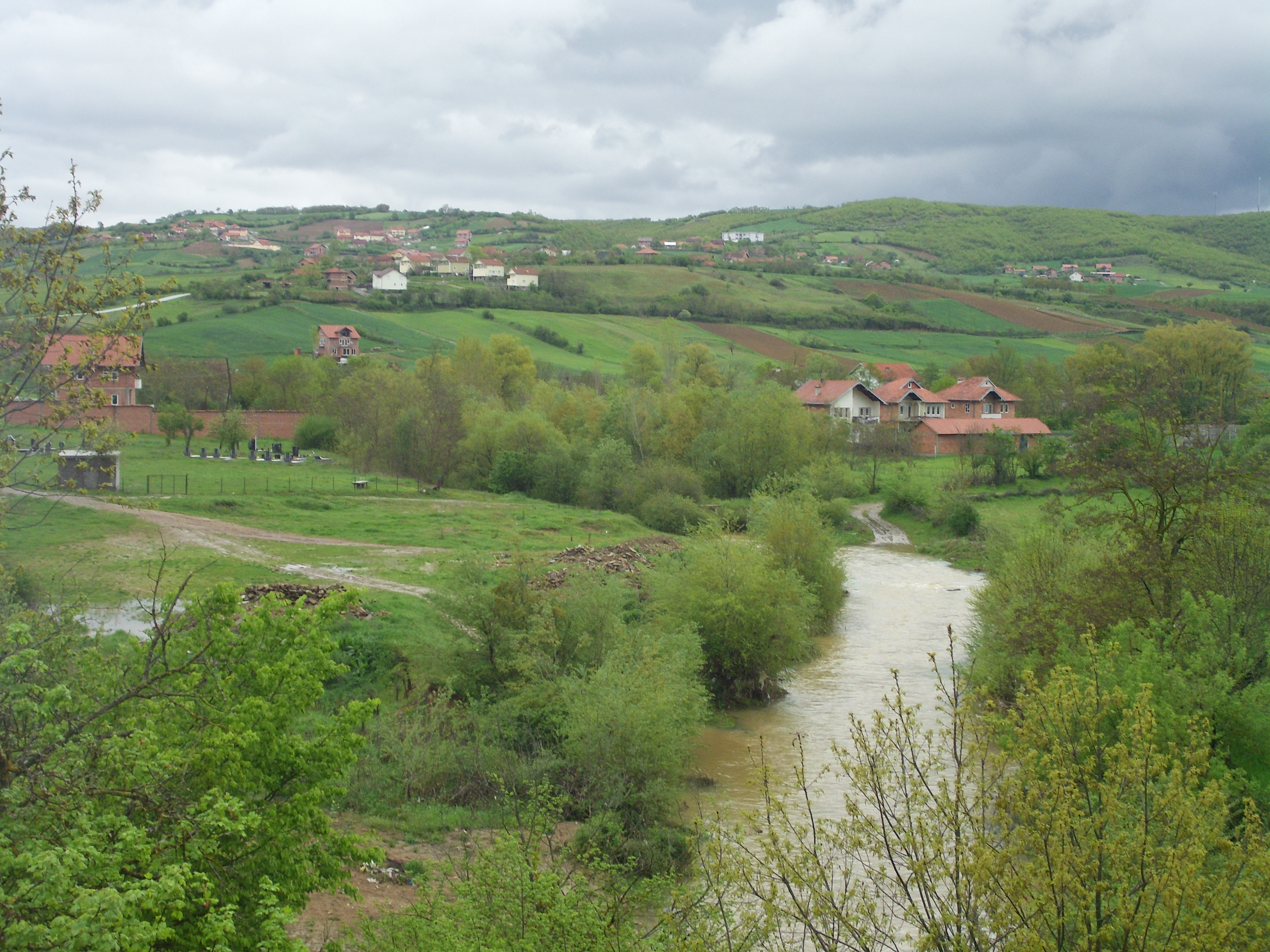 The Klina river in Kosovo. Picture taken from a place close to a railway bridge of the Fushë Kosovë - Pejë route.